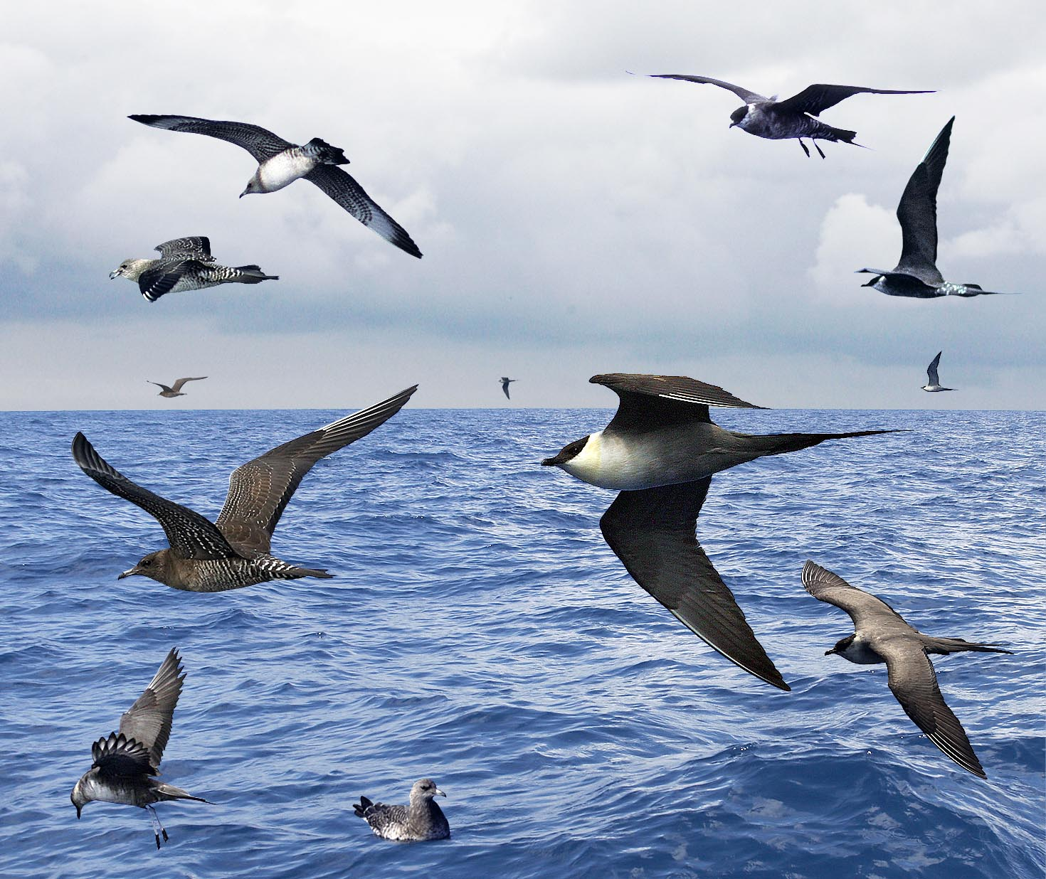 Long-tailed Skua from the Crossley ID Guide Britain and Ireland